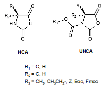 NCA and UNCA structures